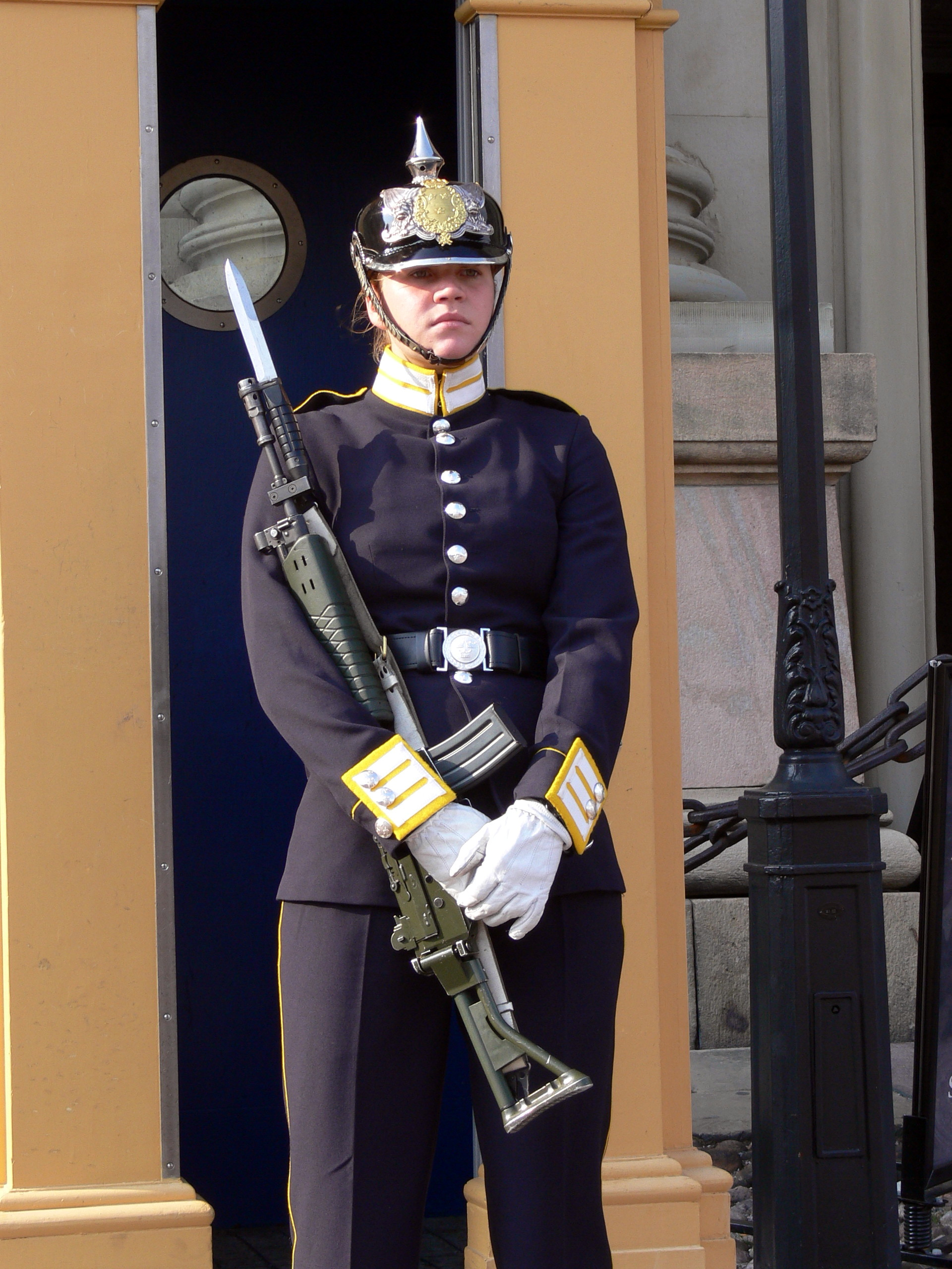 Royal Palace, Stockholm. Female soldier on guard